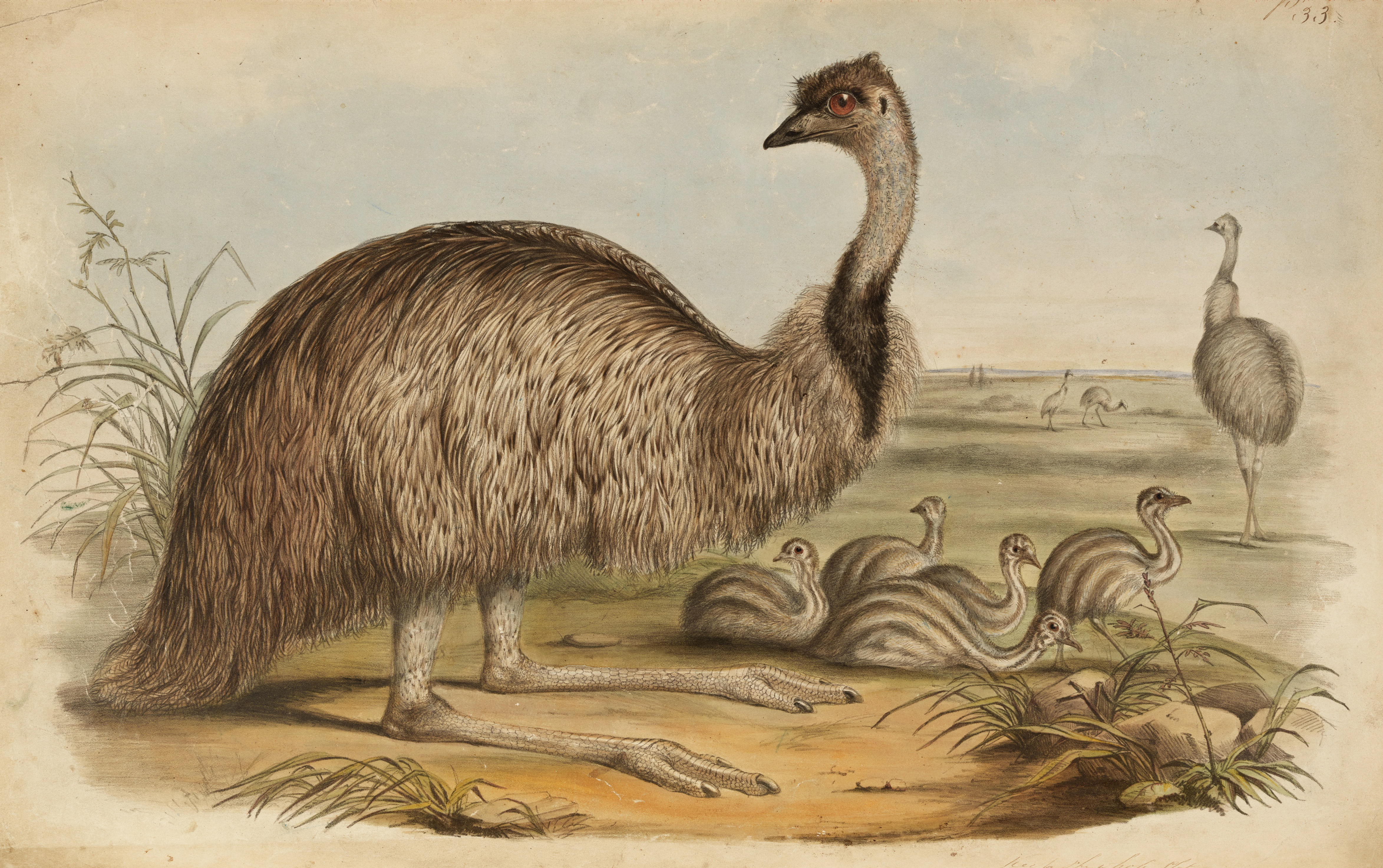 Illustration of an Emu and chicks,Dromaius novaehollandiae, by Elizabeth Gould, from The Birds of Australia in seven volumes by John Gould published by the author, 1848, printed by Richard and John E. Taylor, Londom